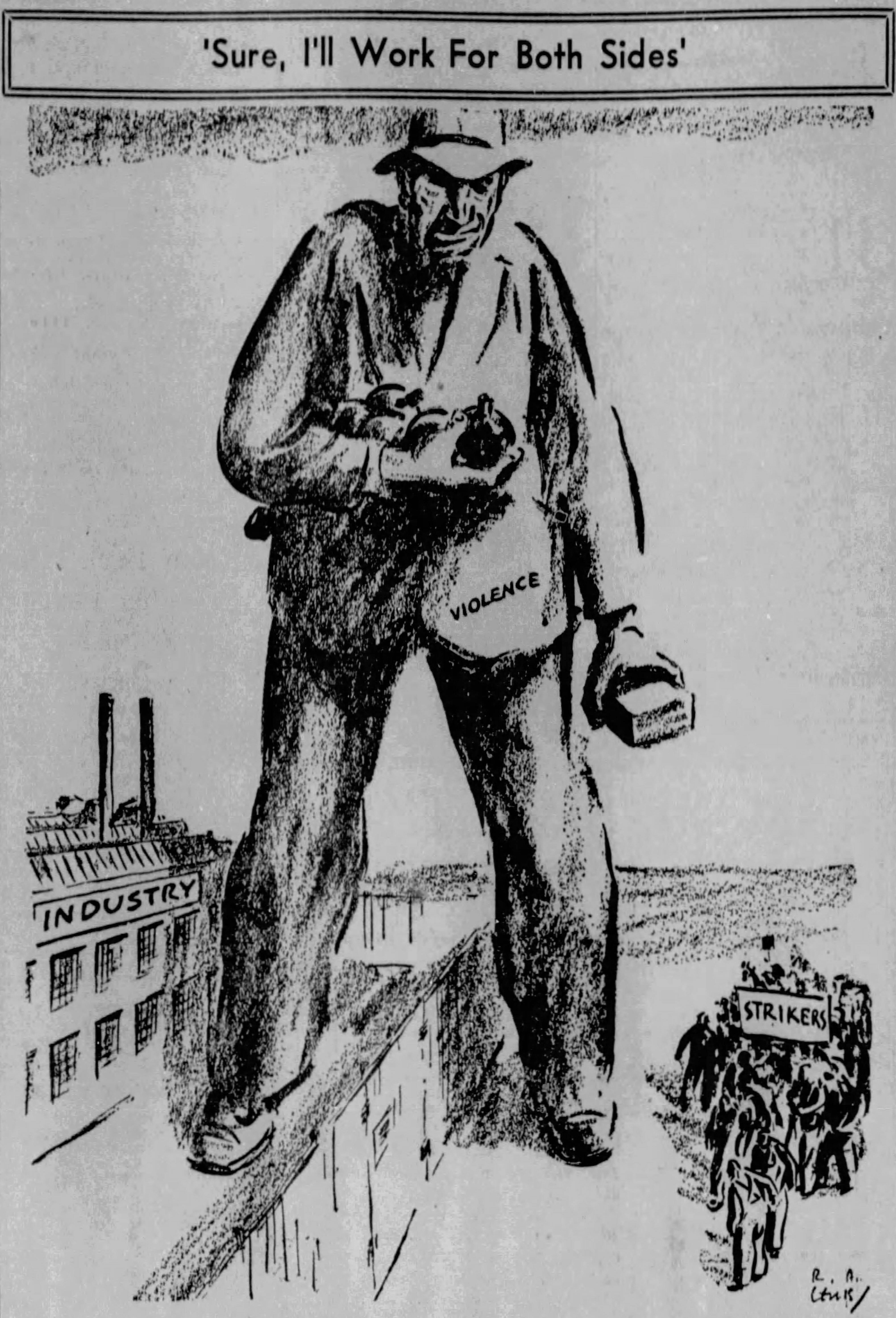 "Sure, I'll Work for Both Sides", an editorial cartoon commenting on union violence and anti-union violence. Winner of the 1935 Pulitzer Prize for Editorial Cartooning.